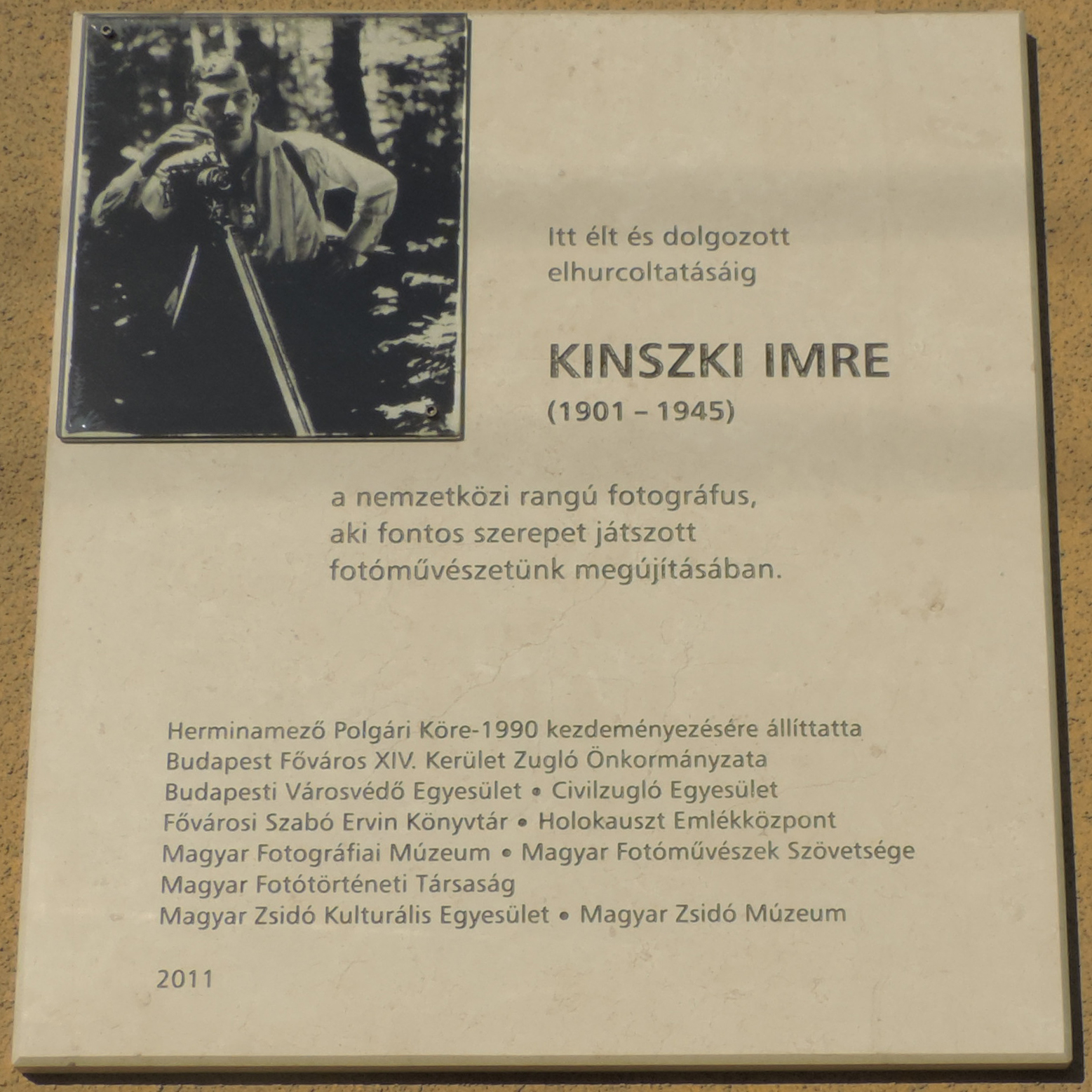 Commemorative plaque of Imre Kinszki (Budapest District XIV, Róna utca No 121)